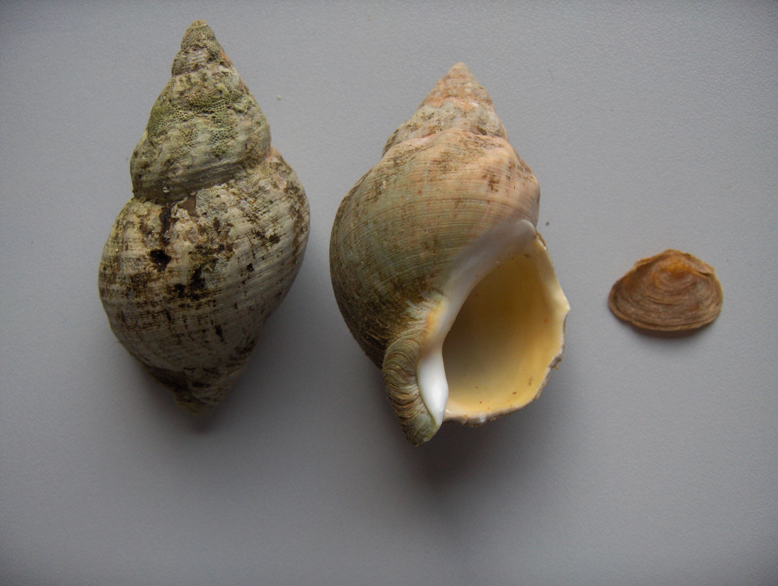 Common whelk (Buccinum undatum) with operculum